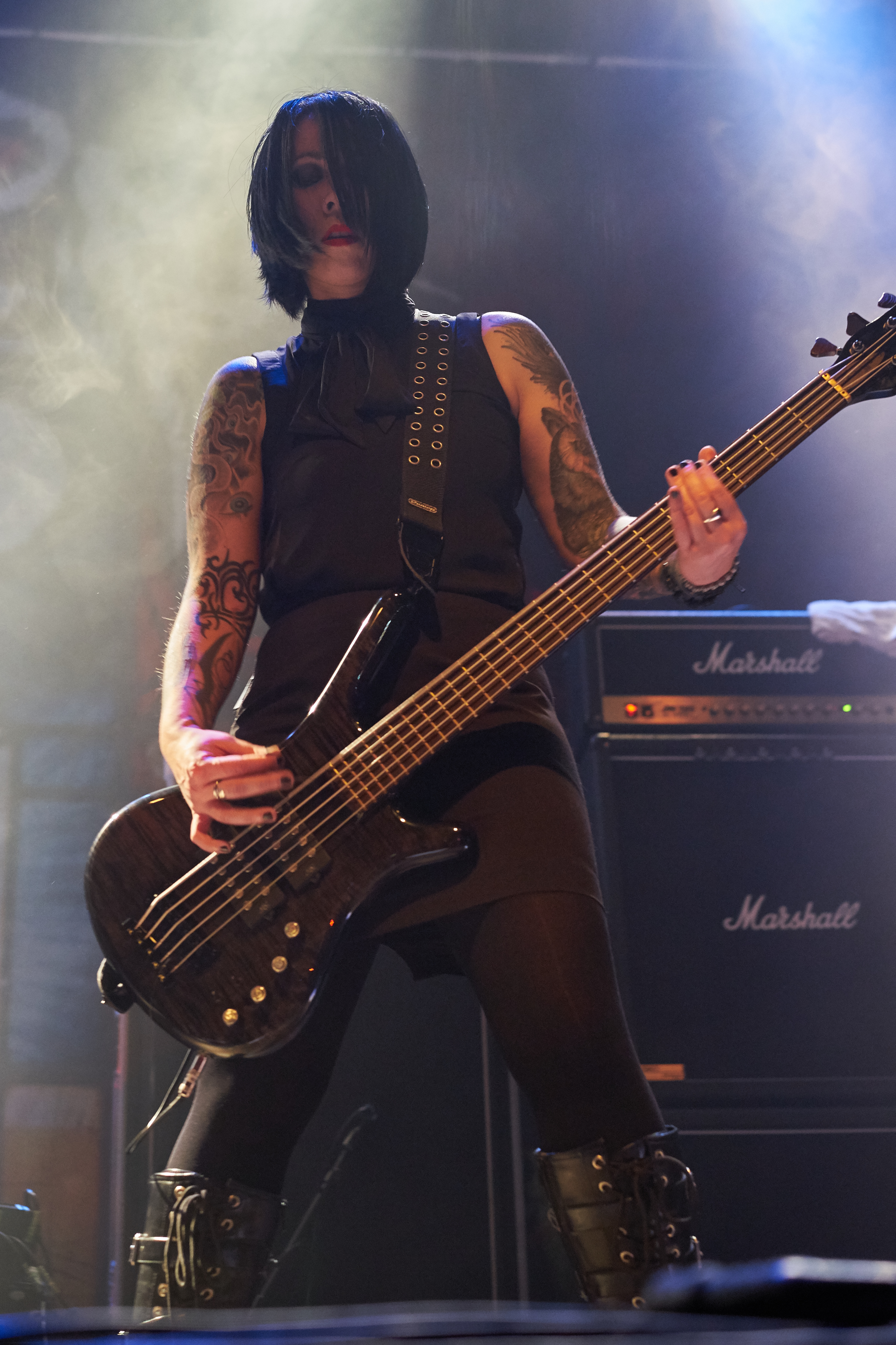 British band My Dying Bride at Hammer of Doom Festival, Würzburg, Posthalle, 21.11.2015 Festivalsommer This photo was created with the support of donations to Wikimedia Deutschland in the context of the CPB project "Festival Summer". Personality rights warning Although this work is freely licensed or in the public domain, the person(s) shown may have rights that legally restrict certain re-uses unless those depicted consent to such uses. In these cases, a model release or other evidence of consent could protect you from infringement claims.